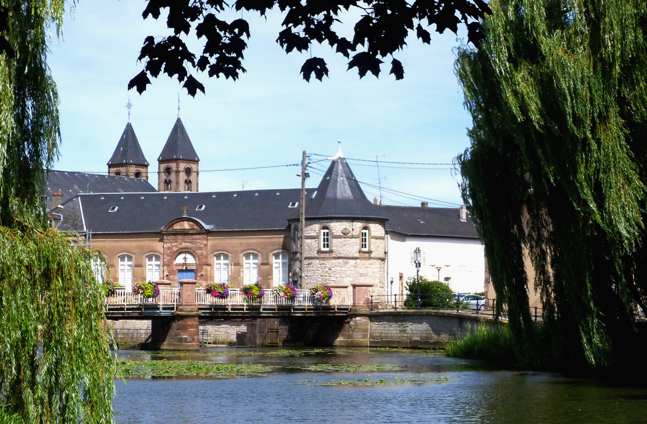 Sarre river in Sarrebourg (Lorraine, France)